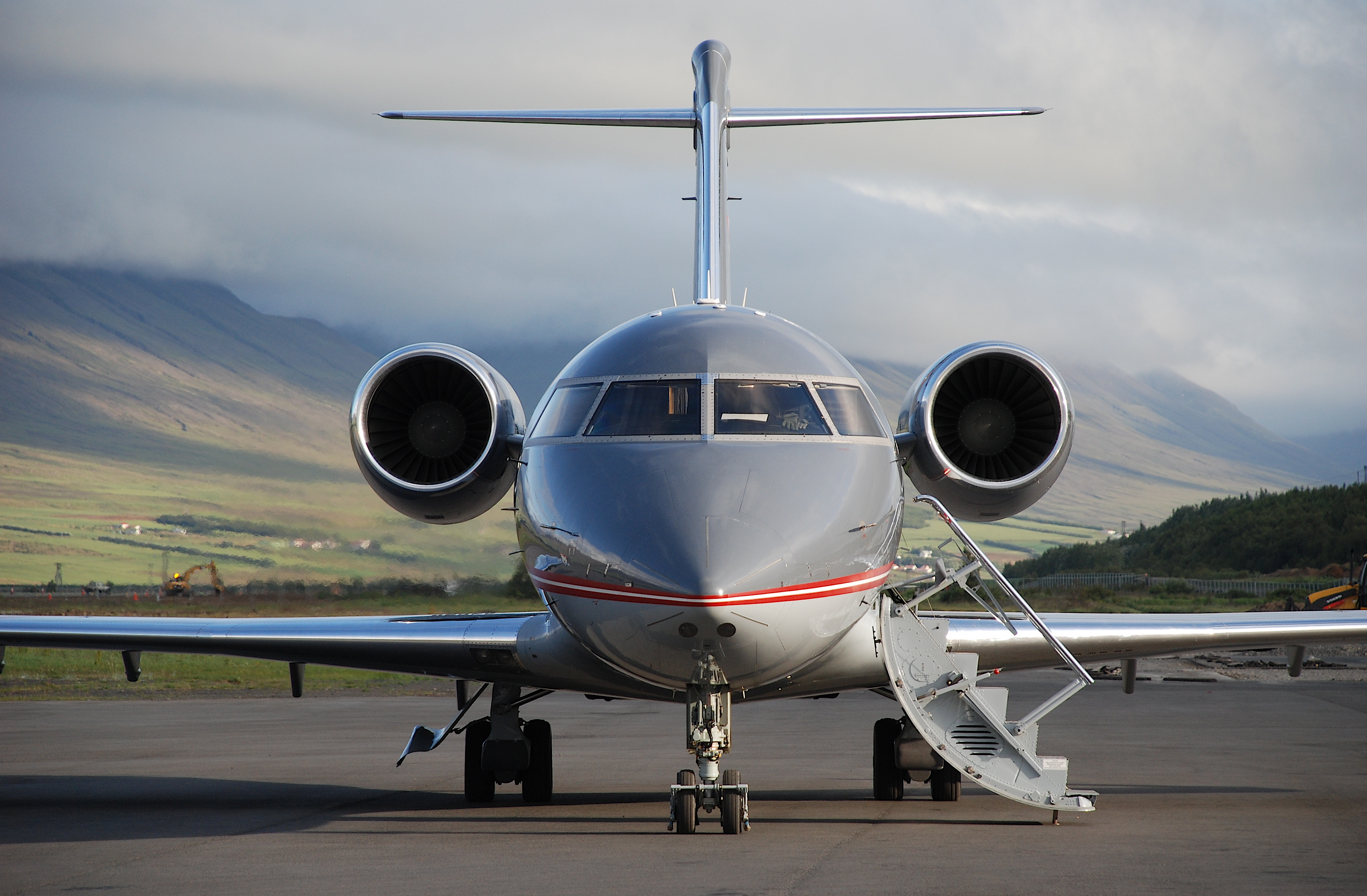 Royal Danish Air Force Canadair Challenger; C-168@AEY;23.07.2009/546ah